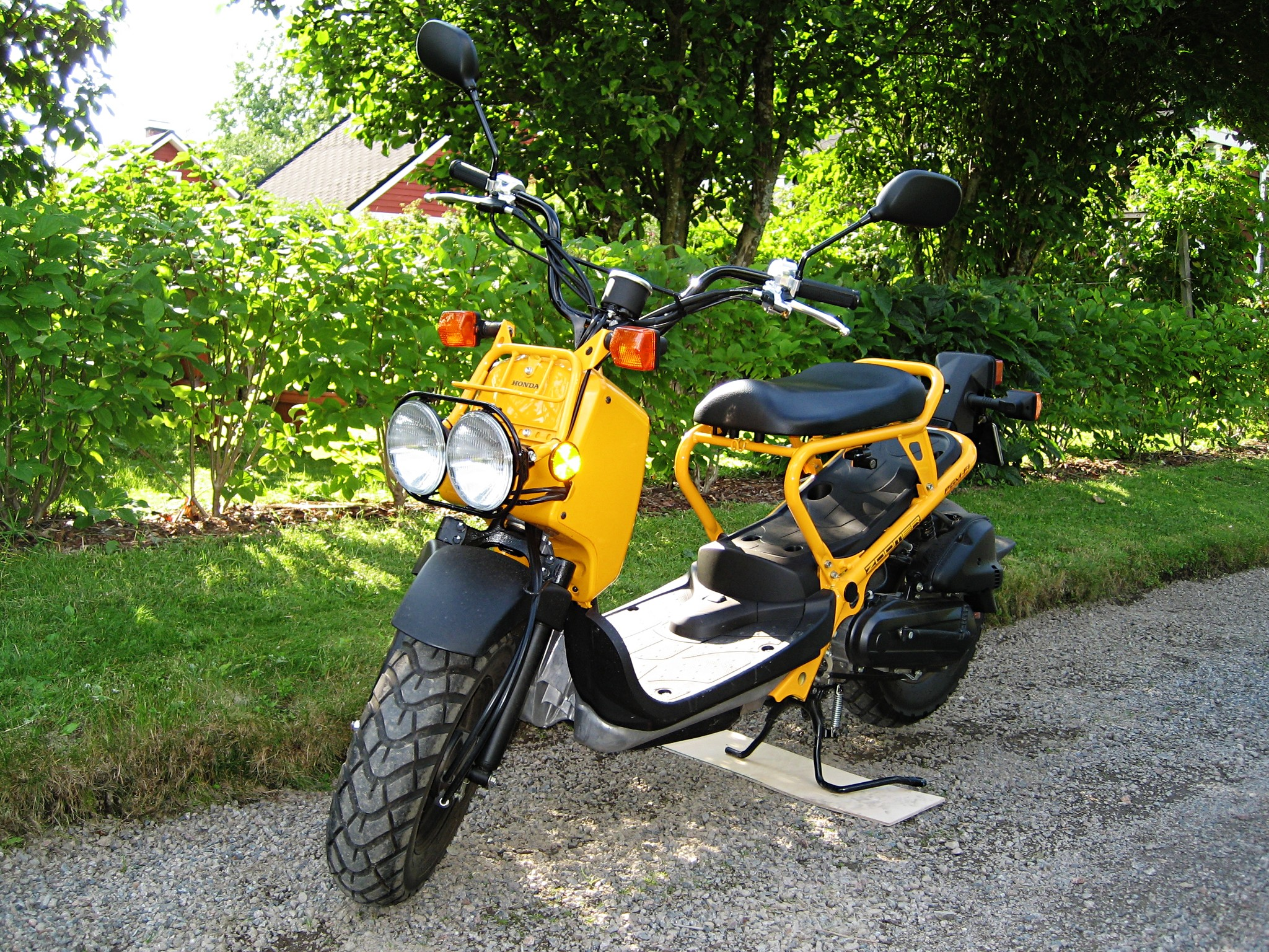 Honda's moped class (50cc) motor scooter named Zoomer (or Ruckus in certain areas), has fuel injection and automatic transmission. This one was made in Japan in 2008.